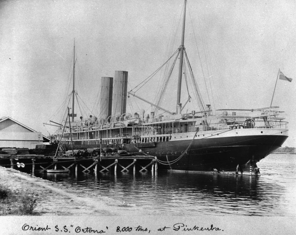 Pacific Steam Navigation Co liner Ortona at Pinkenba Wharf, Brisbane, Queensland, viewed from astern